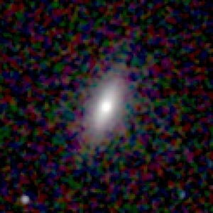 Galaxy NGC 442